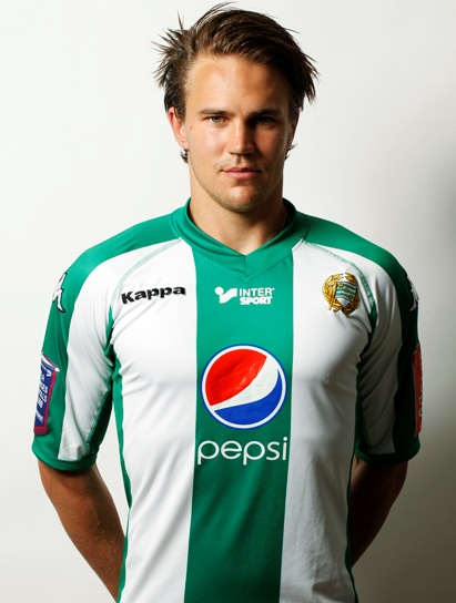 Robin Wikman's official profilepicture at Hammarby IF's homepage